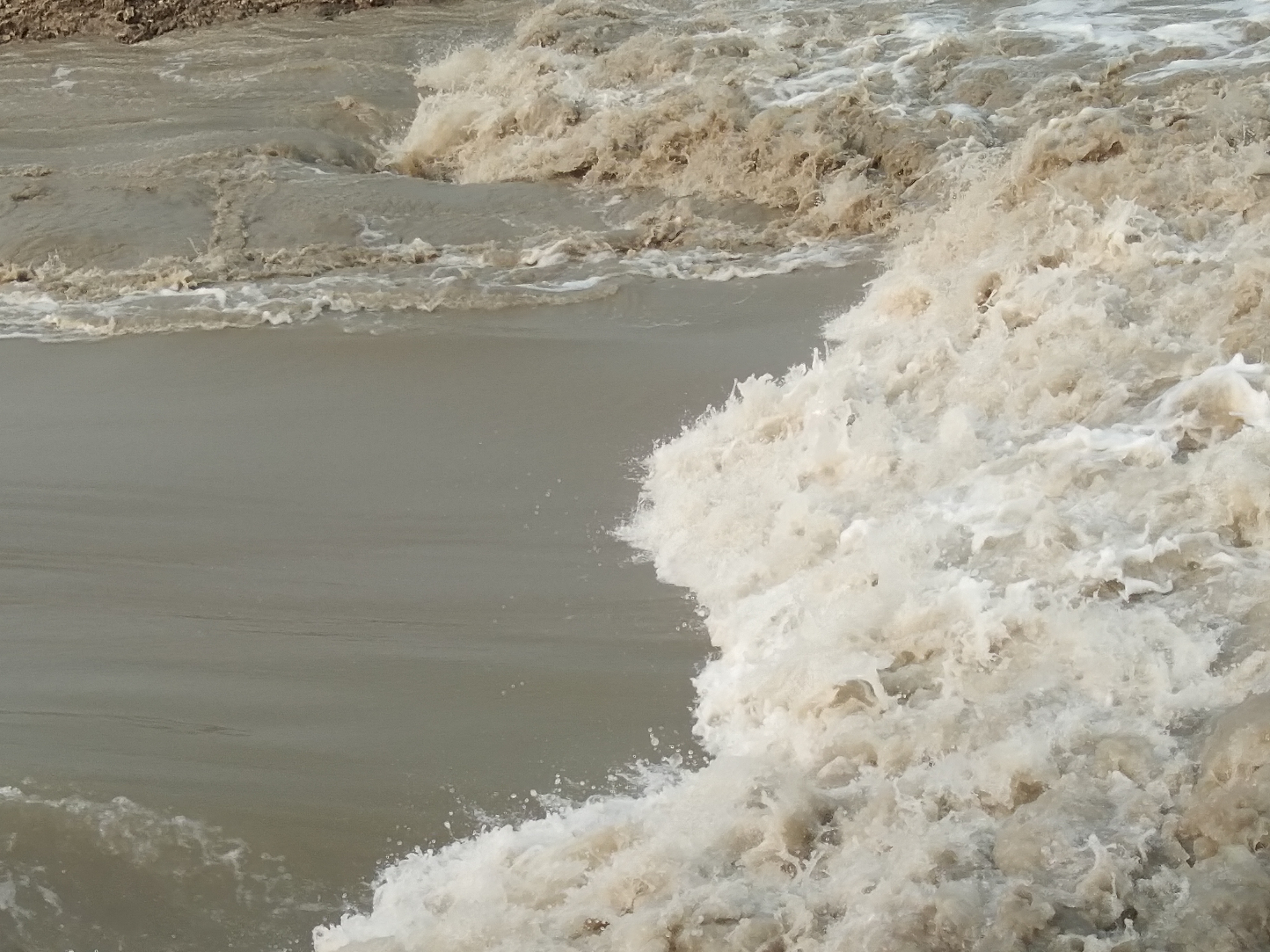 ভদ্র নদী